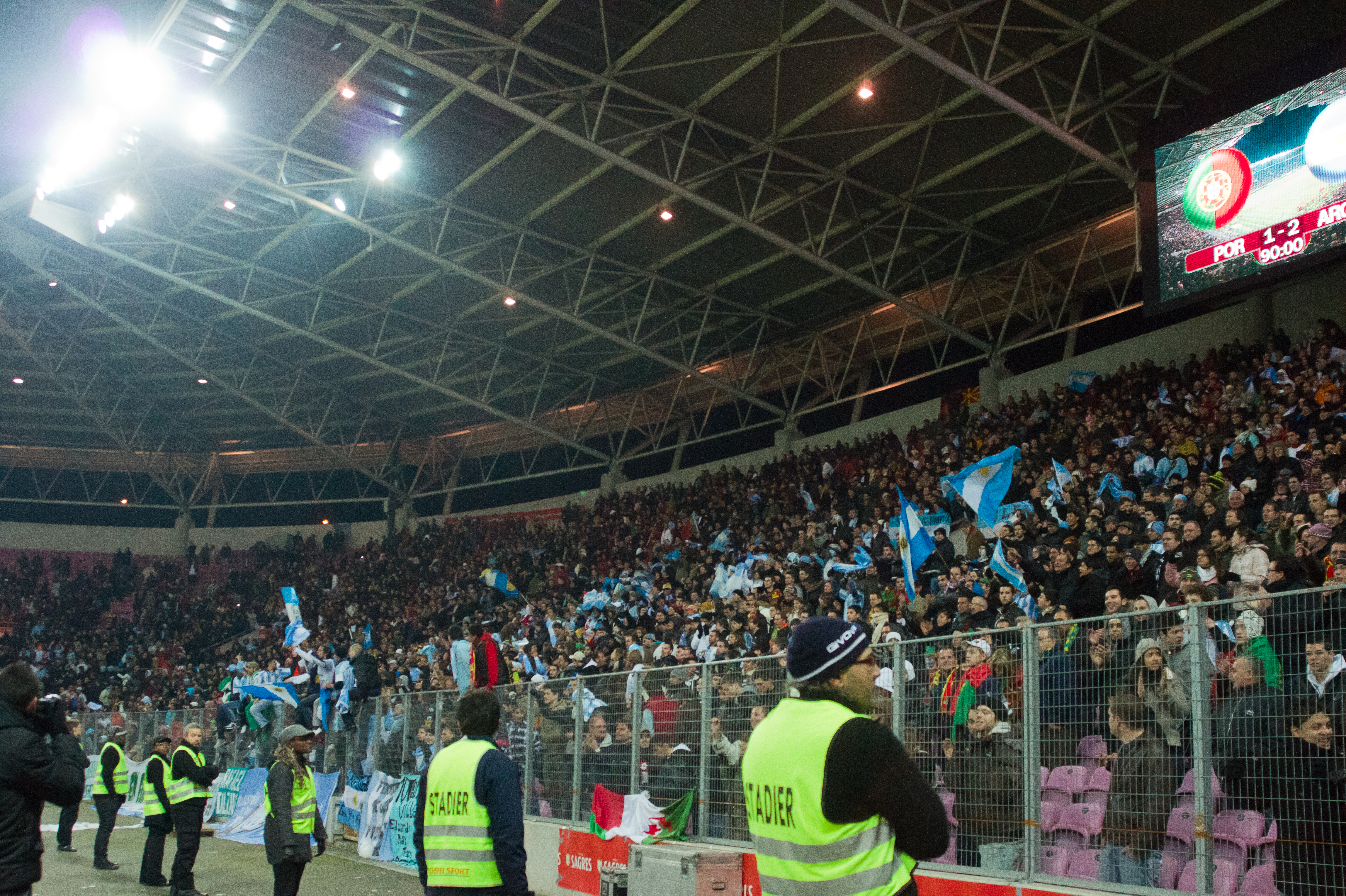 The making of this document was supported by Wikimedia CH. (Submit your project!) For all the files concerned, please see the category Supported by Wikimedia CH. Portugal vs. Argentina, 9th February 2011